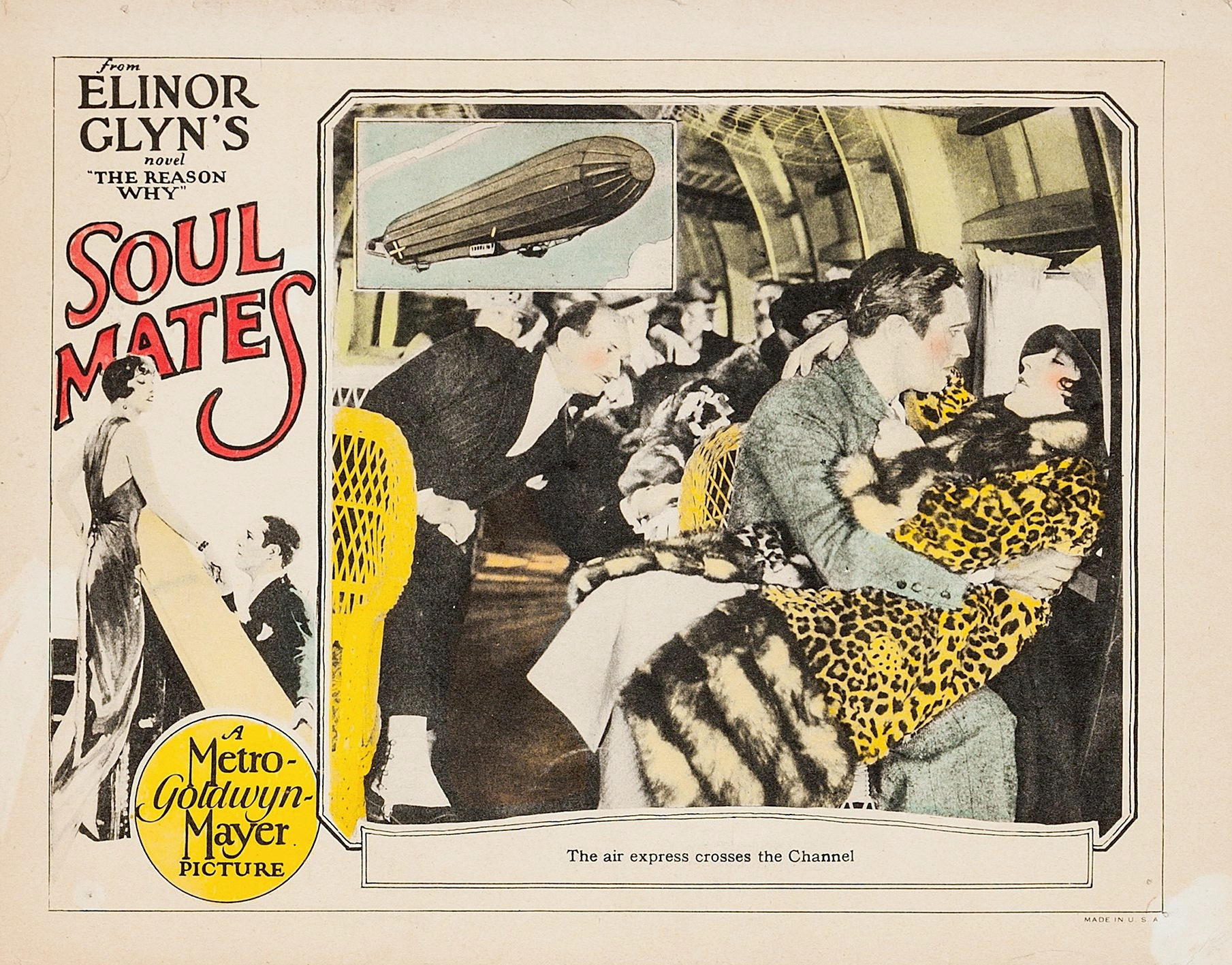 Lobby card for the American drama film Soul Mates (1925) with clearly no copyright notices, thus public domain.